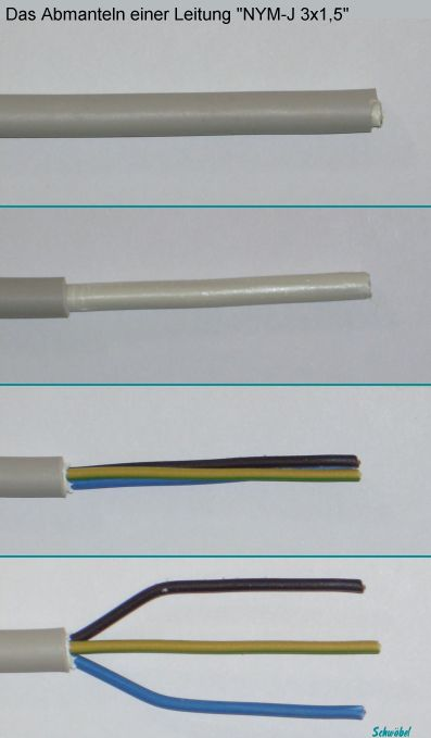 Stripping an NYM cable